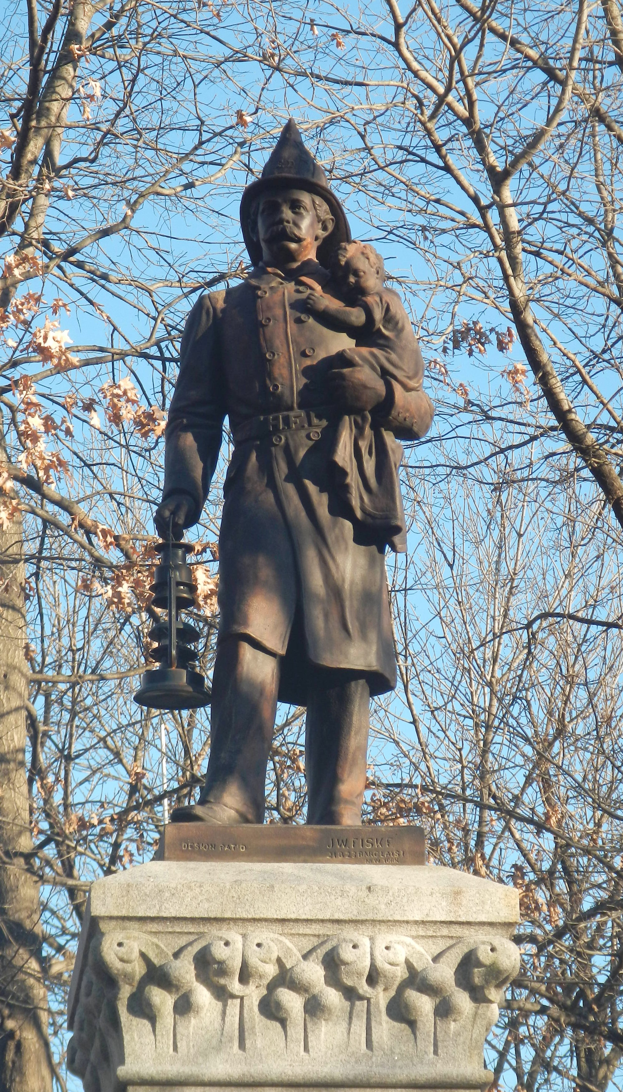 Looking east at fireman memorial on a sunny afternoon.